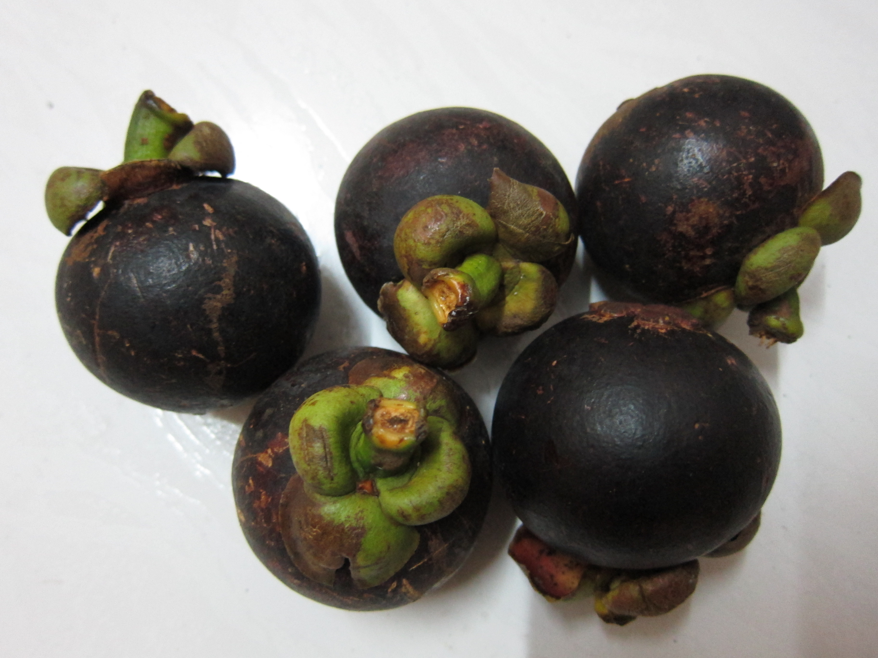 Mangosteen മാങ്കോസ്റ്റീൻ, മാംഗോസ്റ്റീൻ